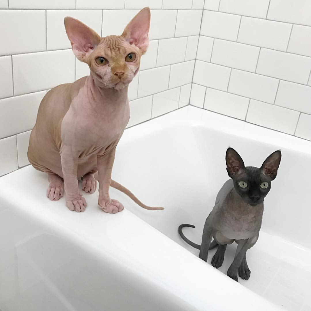 Two Sphynx cats in bath - #CarbonCat #NeonCat